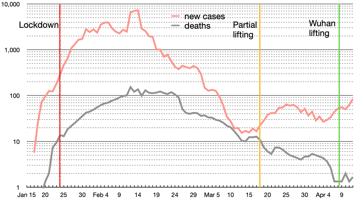 Shows 3 day rolling average of new cases and daily deaths in China taken from over the period mid-January to mid-April 2020. The dates of lockdown (21 Jan) and partical lifting of the lockdown (19 Mar) in Hubei are shown.